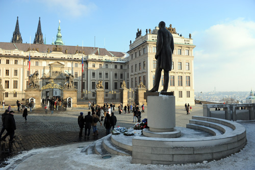 The statue of Tomáš Garrigue Masaryk in front of Prague Castle. There are two copies of this statue - one in Prague and the other one in Mexico City on Avenida Masaryk